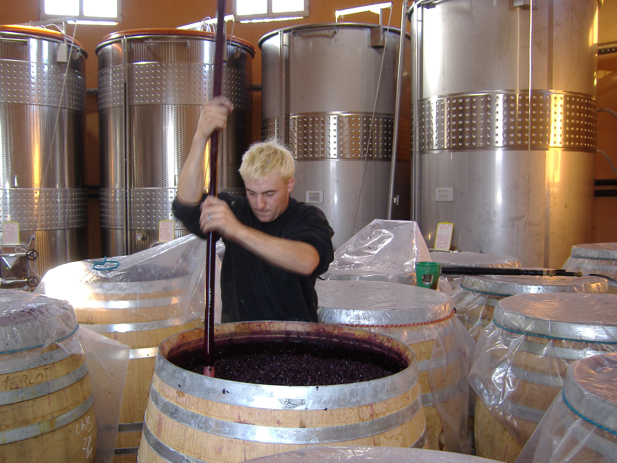 A winery worker punches down the cap of red grape skins fermenting in an oak barrel. This process is known in french as pigeage and is part of the maceration process that extracts color, flavor and aroma compounds from the grape skins into the wine.